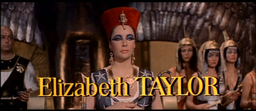 Cropped screenshot of Elizabeth Taylor from the trailer for the film Cleopatra.